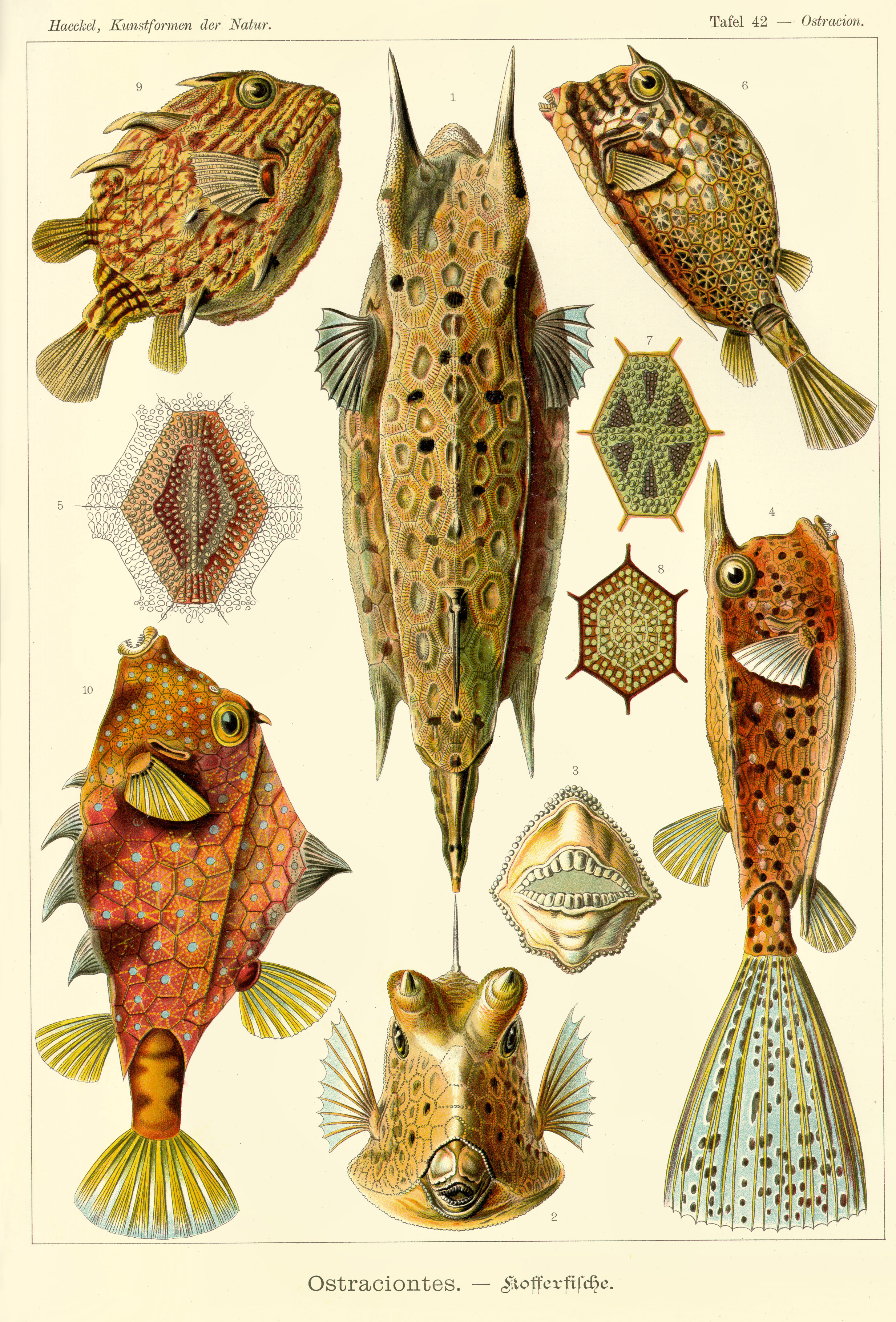 6-8: Scrawled Cowfish 9: Striped Cowfish 10: Humpback Turretfish Full text description (in German)